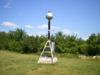 Schumann antenna at the the Tican Observatory in Croatia.